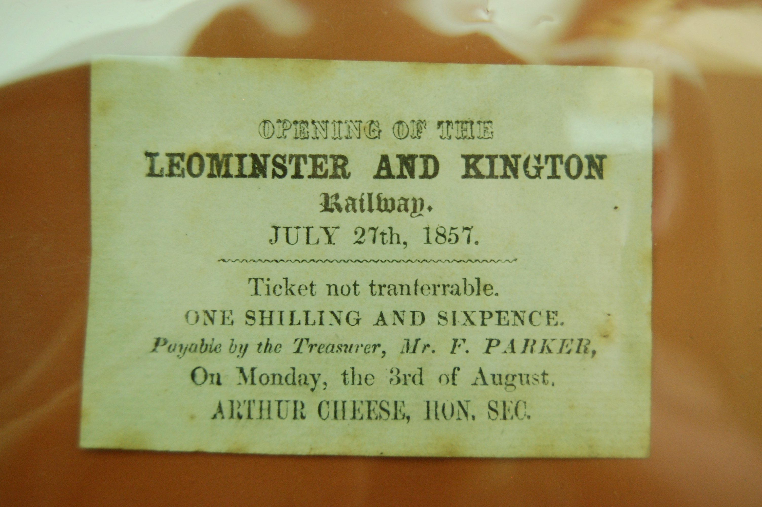 Ticket for the opening of the Leominster and Kington Railway, now in Leominster Museum. Object is in a protective plastic case. OPENING OF THE LEOMINSTER AND KINGTON Railway JULY 27th, 1857. Ticket not transferrable. ONE SHILLING AND SIXPENCE. Payable by the Treasurer, Mr. F. PARKER, On Monday, the 3rd of August. ARTHUR CHEESE, HON. SEC.